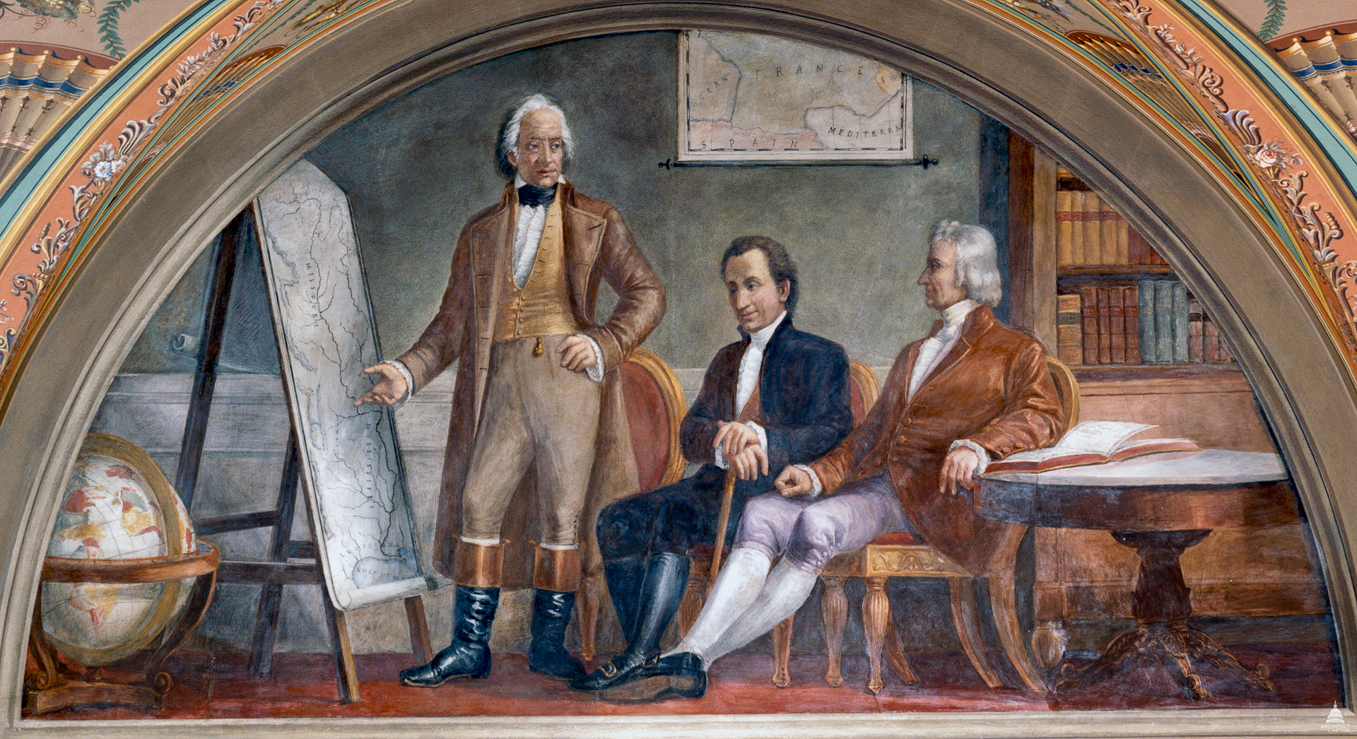 Constantino Brumidi Fresco 1875 Senate wing U.S. Capitol The Marquis Barbé-Marbois, the representative of the French government, is depicted standing and showing a map to Robert Livingston, who coordinated the negotiations, and James Monroe, the minister to France. This official Architect of the Capitol photograph is being made available for educational, scholarly, news or personal purposes (not advertising or any other commercial use). When any of these images is used the photographic credit line should read “Architect of the Capitol.” These images may not be used in any way that would imply endorsement by the Architect of the Capitol or the United States Congress of a product, service or point of view. For more information visit